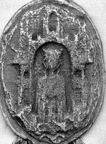 Princess Ingiburga (1212) of Sweden, as depicted on her royal seal (excerpt)